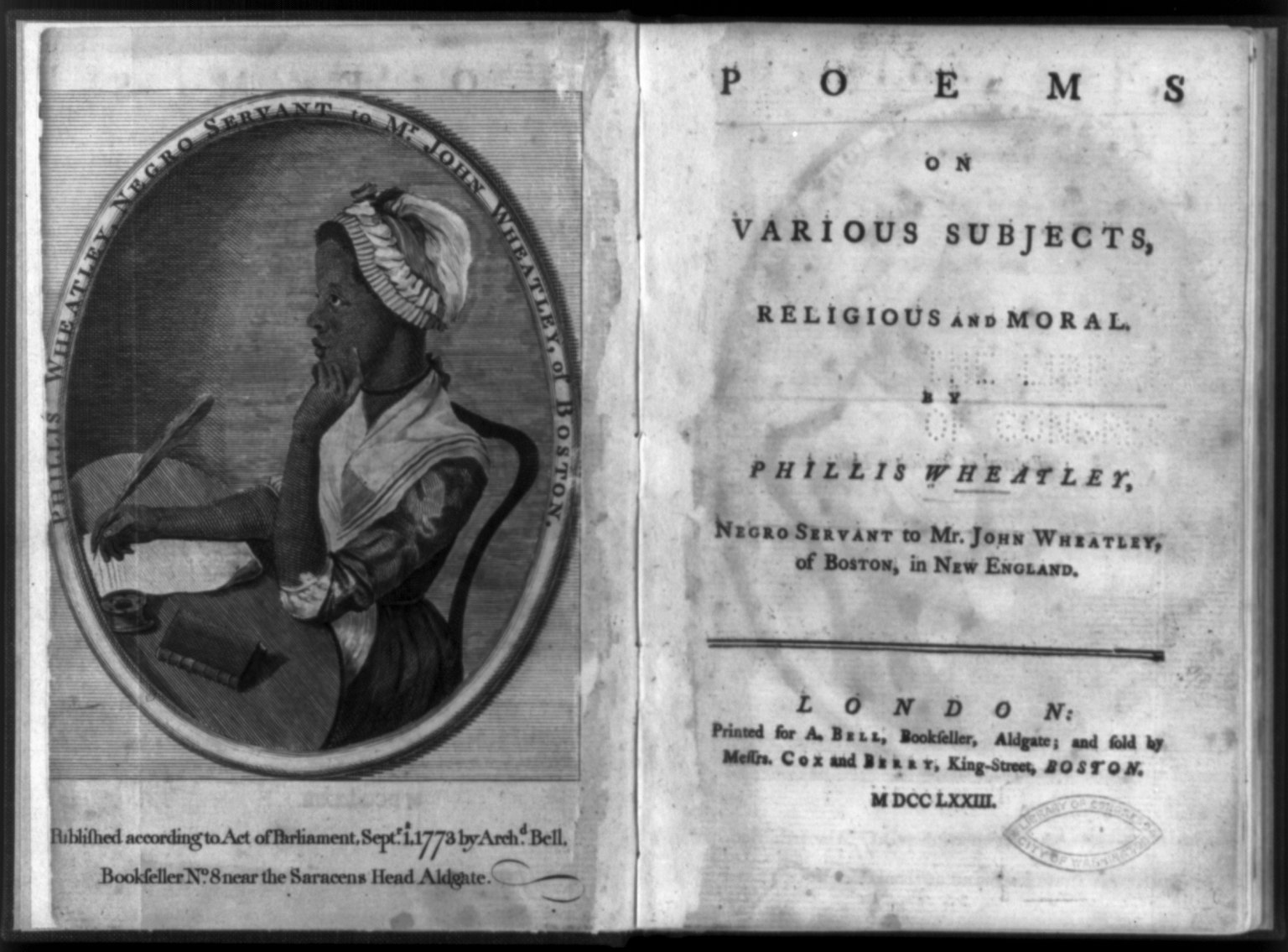 Title: Frontis.: portrait of Phyllis Wheatley, and title p. of Wheatley, Poems on Various Subjects..., London, 1773 Abstract/medium: 1 print : engraving.